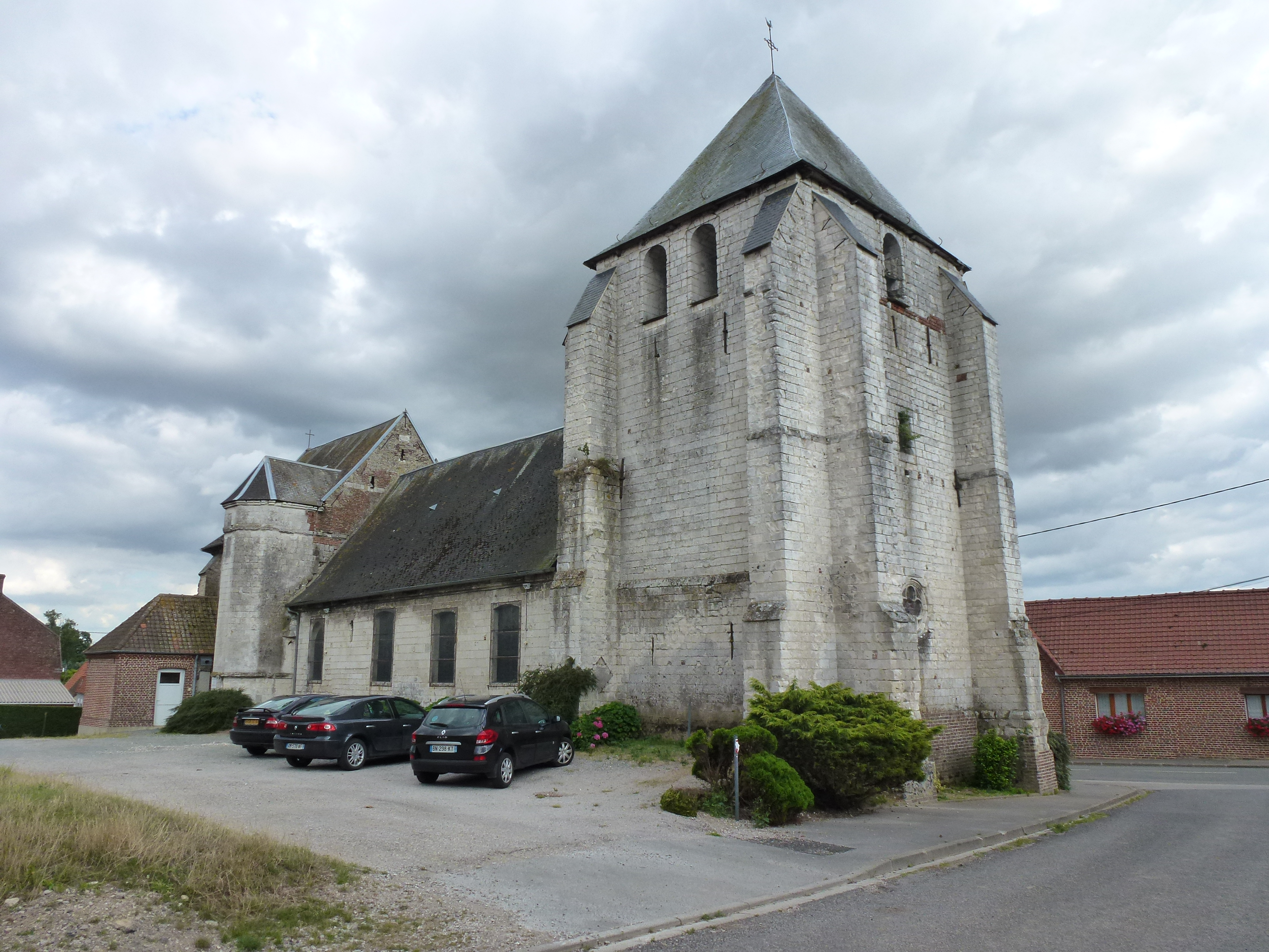 Pihem (Pas-de-Calais, Fr) église Saint-Pierre-aux-Liens